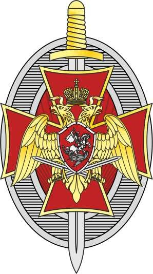 Honorary title "Honoured Fellow of the National Guard" Russian Federation